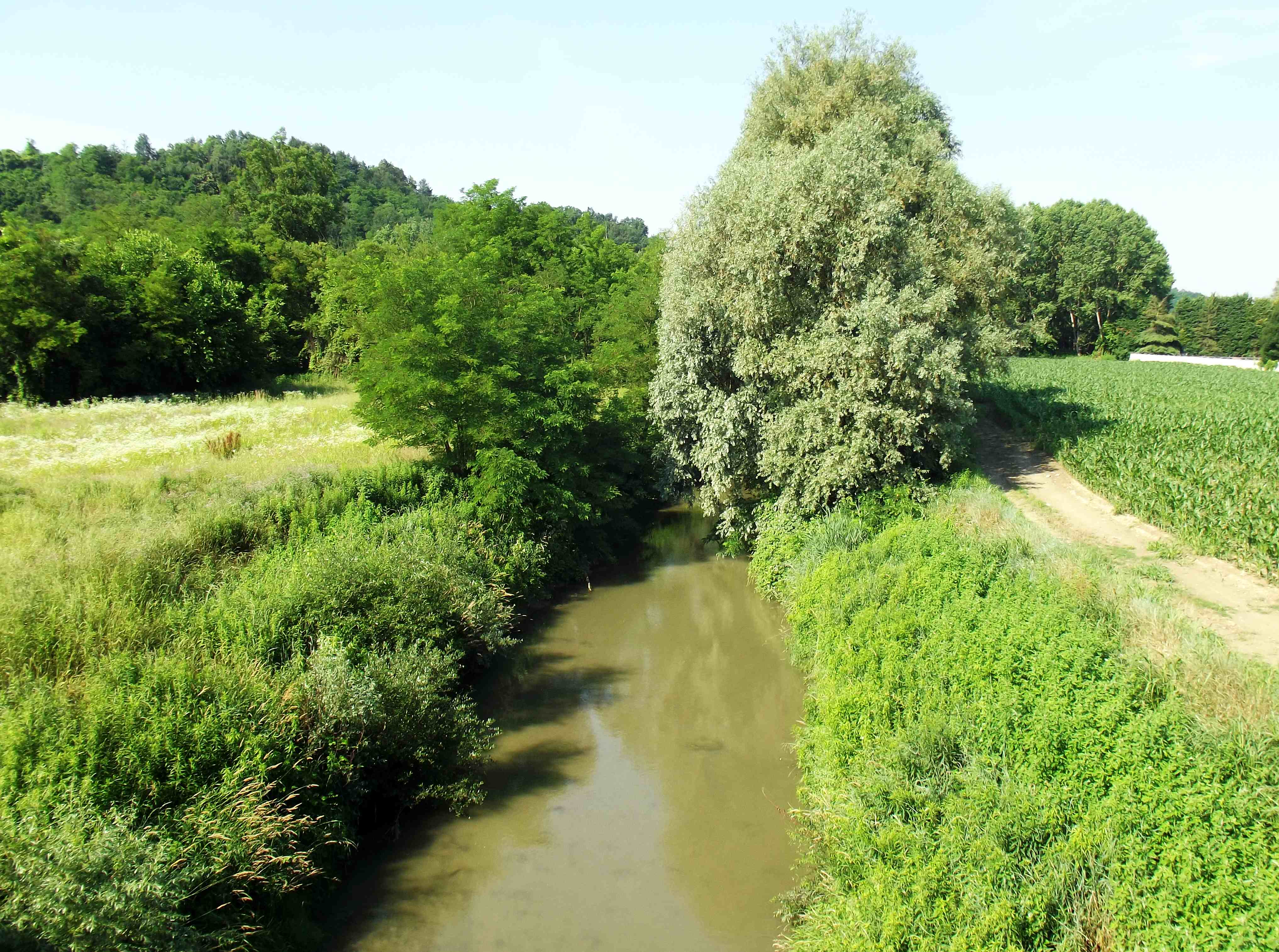 The Triversa nearby Baldichieri (AT, Italy)